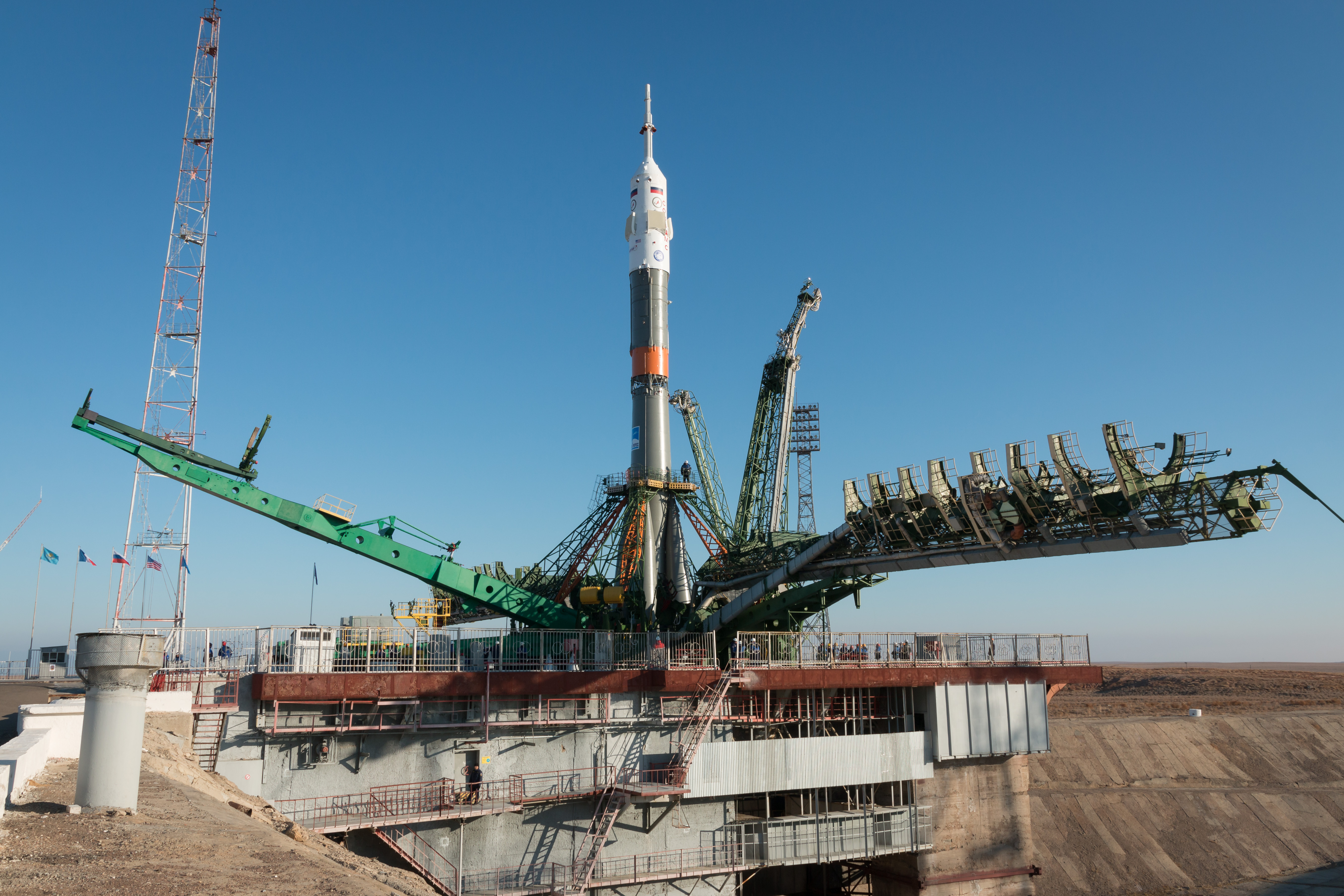 The Soyuz rocket is seen after being rolled out by train to the launch pad at the Baikonur Cosmodrome, Kazakhstan, Monday, Nov. 14, 2016. NASA astronaut Peggy Whitson, Russian cosmonaut Oleg Novitskiy of Roscosmos, and ESA astronaut Thomas Pesquet will launch from the Baikonur Cosmodrome in Kazakhstan the morning of November 18 (Kazakh time.) All three will spend approximately six months on the orbital complex. Photo Credit: (NASA/Victor Zelentsov)